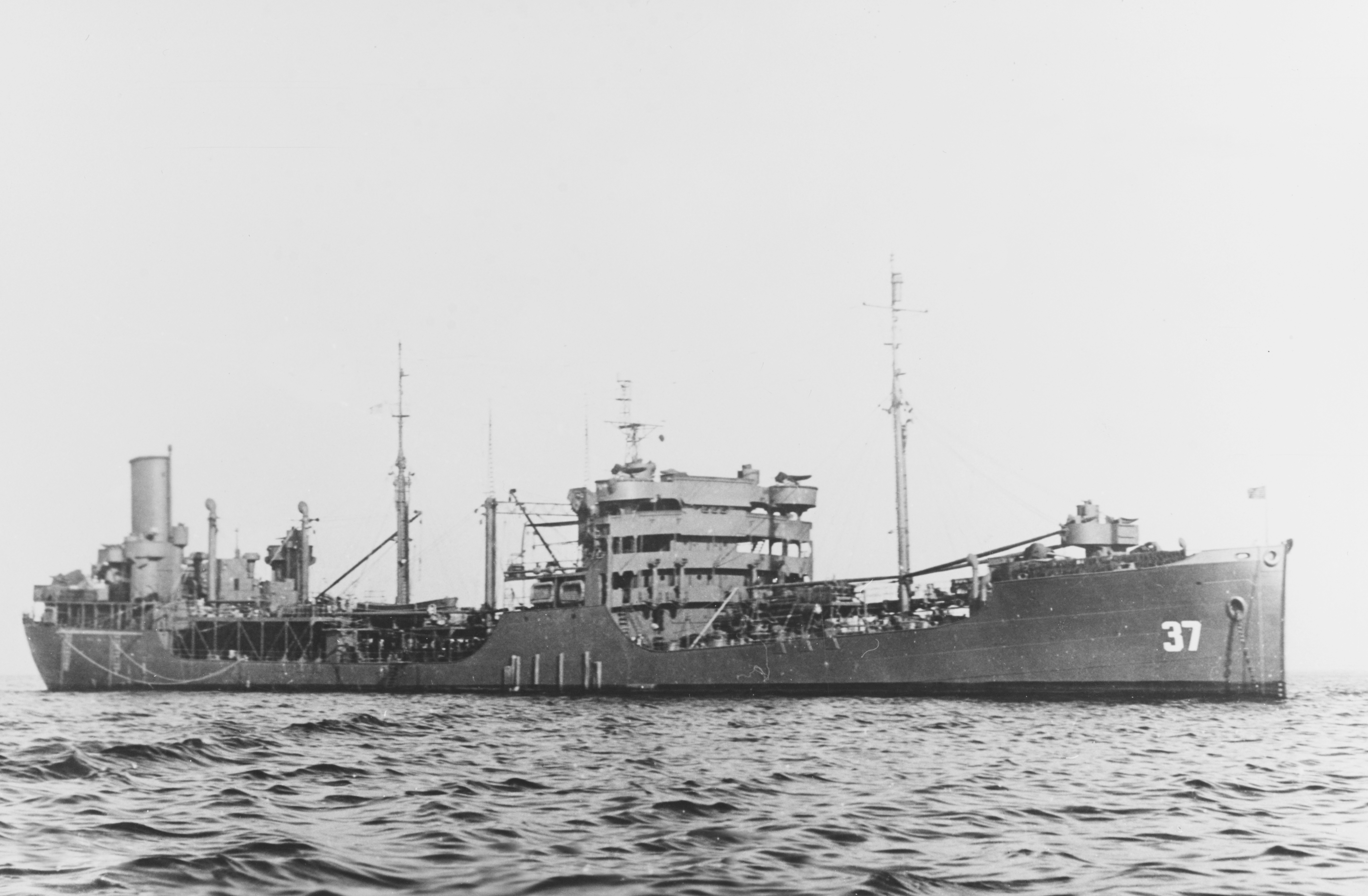 The U.S. Navy fleet oiler USS Merrimack (AO-37) at anchor, circa in 1945.